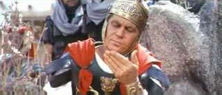 Screenshot from the trailer of the film King of Kings.